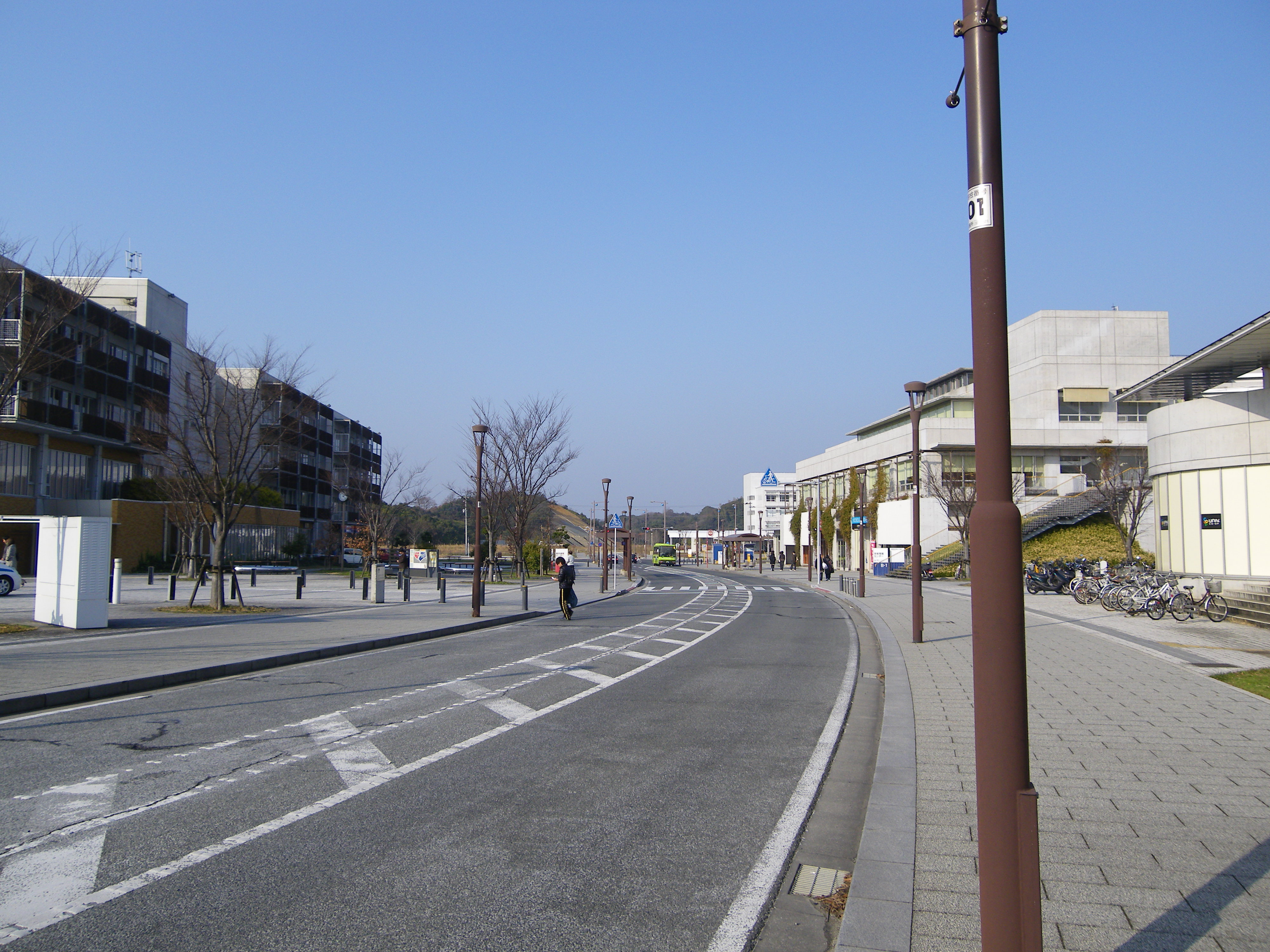 Hibikino,Wakamatsu ward,Kitakyushu city.